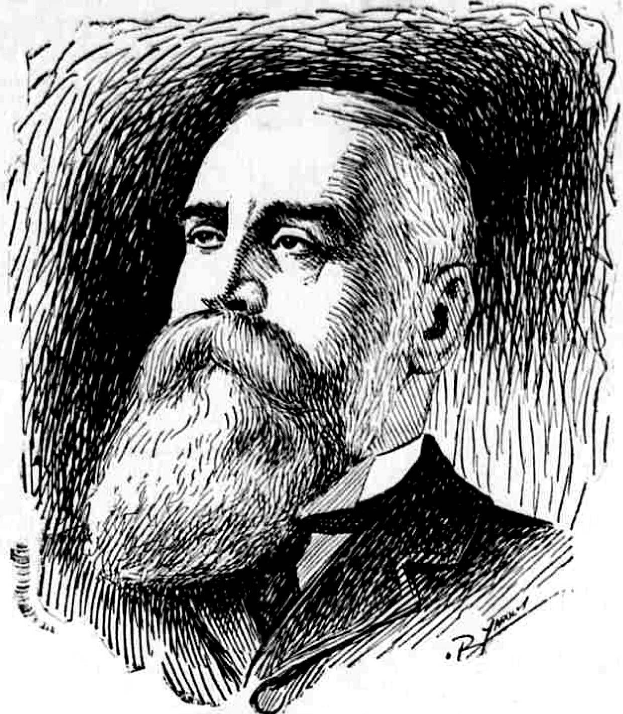 Paul Isenberg (1837–1903) was a German businessman who developed the sugarcane business in the Kingdom of Hawaii. He was a half partner in the firm H. Hackfeld & Company, later renamed American Factors or Amfac.